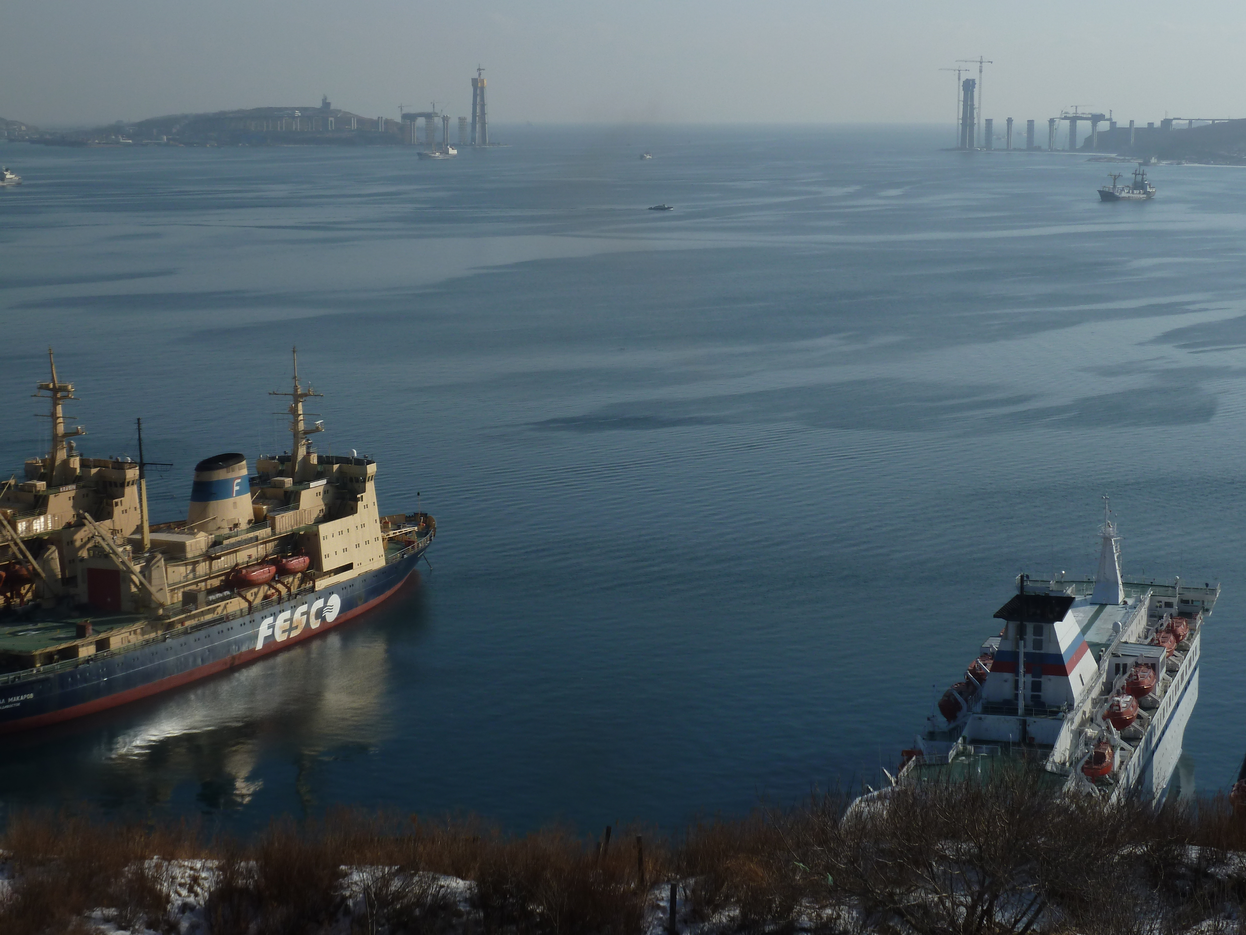 A view to the Eastern Bosphorus strait from Vladivostok (Shkot peninsula) in December 2010; The bridge is under construction (icebreaker Admiral Makarov and ferry Georg Ots (right) moored at quay in the foreground)